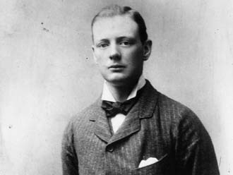 Winston Churchill, aged 24.